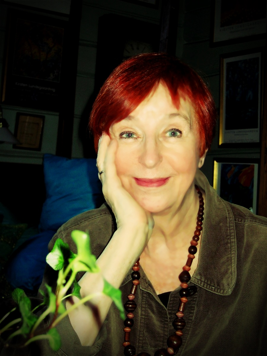 Photo of the artist Kirsten Lundsgaardvig